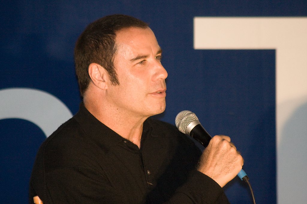 John Travolta's appearance on the World's Greatest Aviation Celebration, Oshkosh AirVenture 2008 in Oshkosh, WI